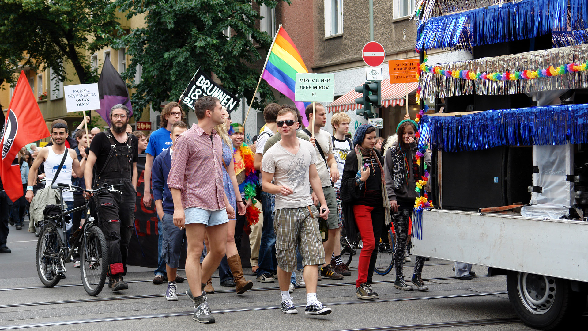 Alternative Pride March (Transgenialer CSD) in Berlin, 2009.